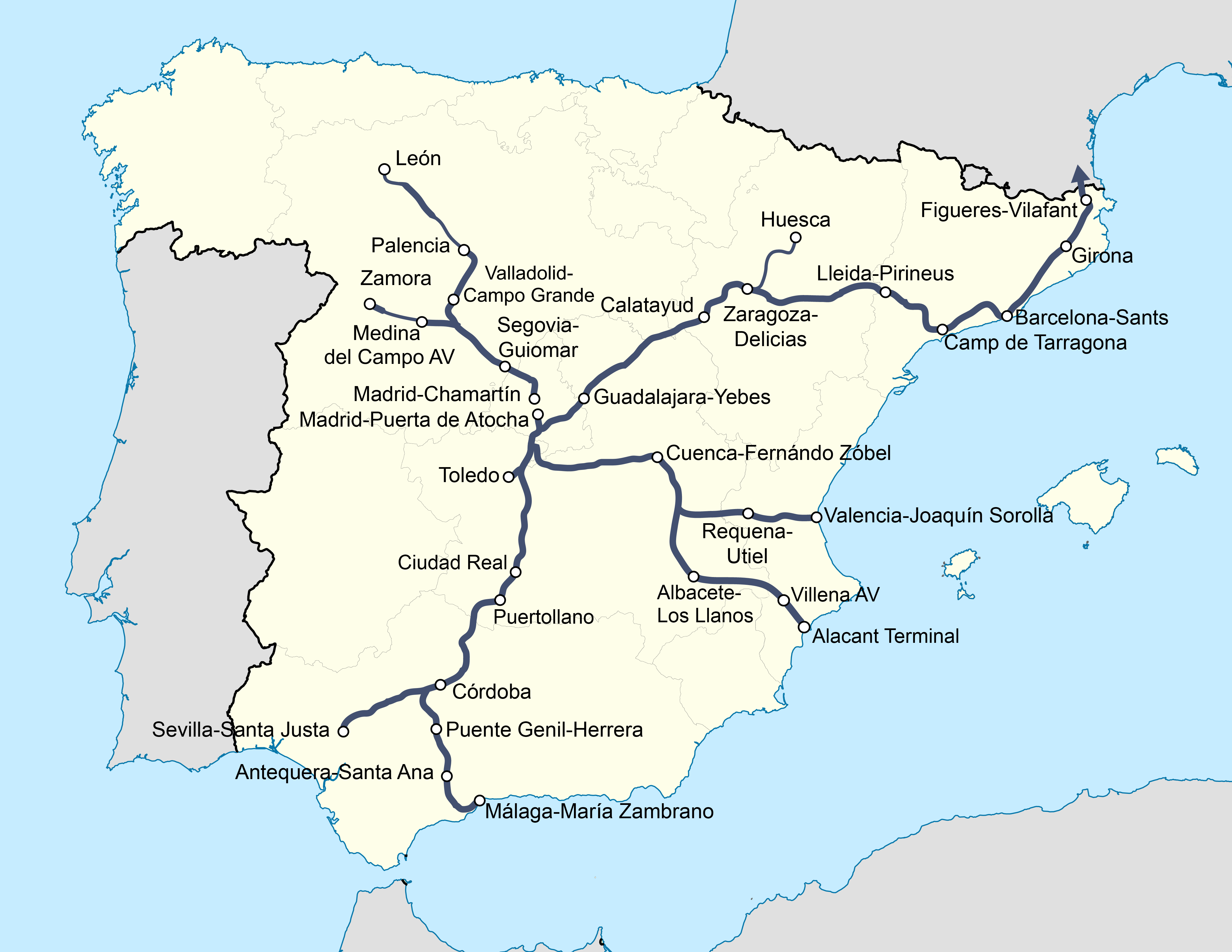 Current Stephenson gauge (1.435 mm) rail network in Spain. I differs from the high speed network (see File:Spain High Speed Rail.svg) due to the temporal choice of iberian gauge for the Galician HSL.